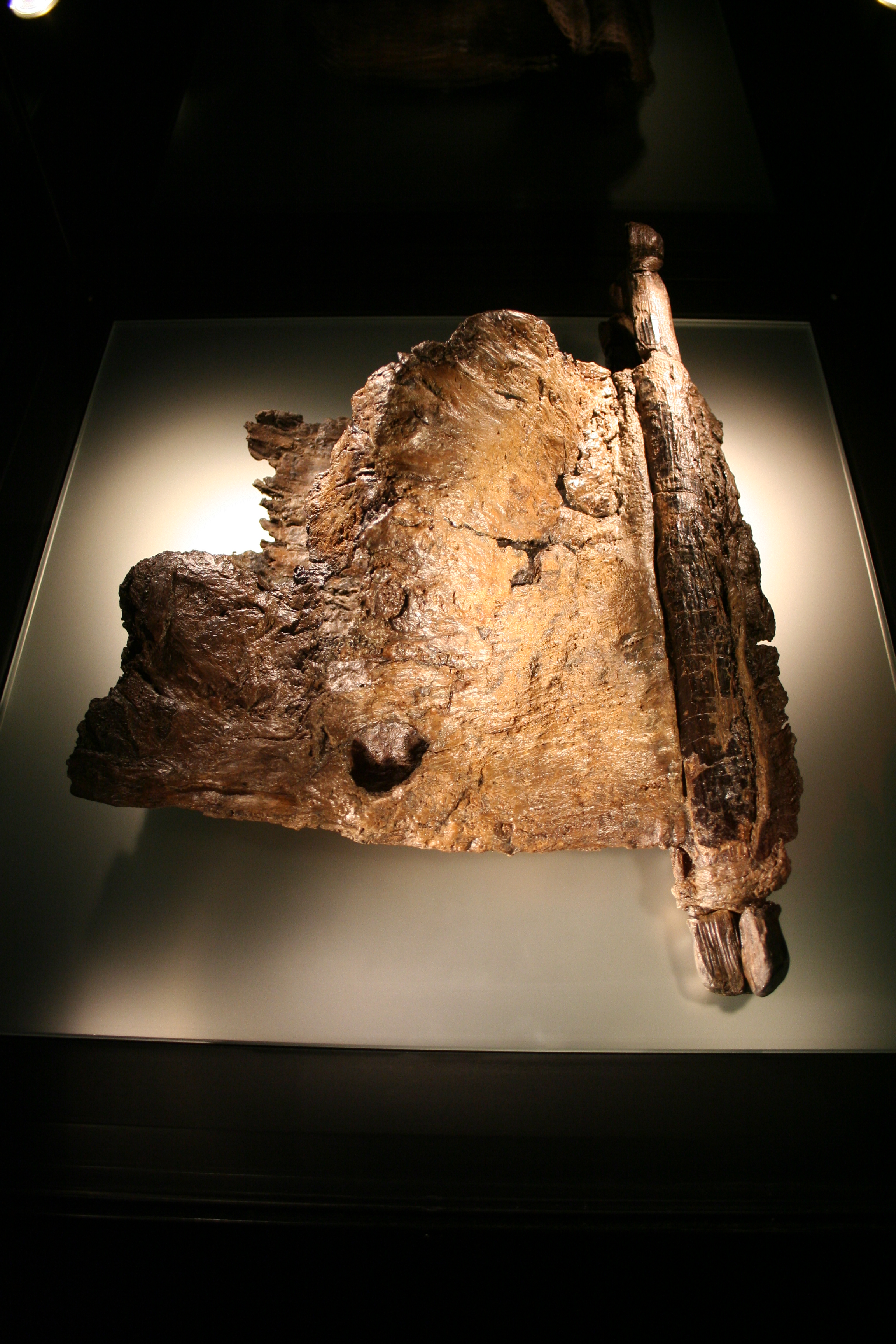 Bag made from bark, wood and bast, found inside the Linear Pottery culture well 17 at the former municipality of Eythra, now surface mine Zwenkau, Leipziger Land